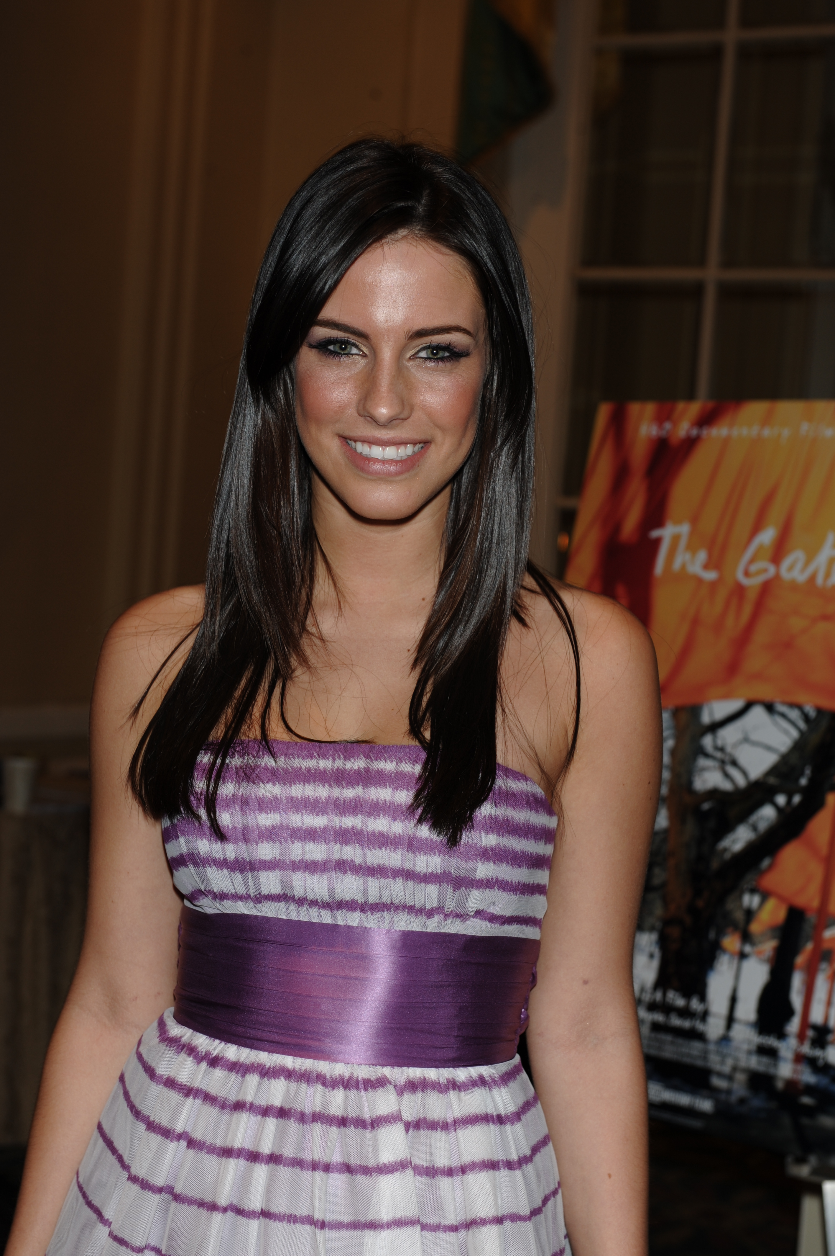 PHOTO CREDIT: ANDERS KRUSBERG / PEABODY AWARDS Jessica Lowndes 68th Annual Peabody Awards Luncheon Waldorf=Astoria Hotel New York, NY USA May 18, 2009